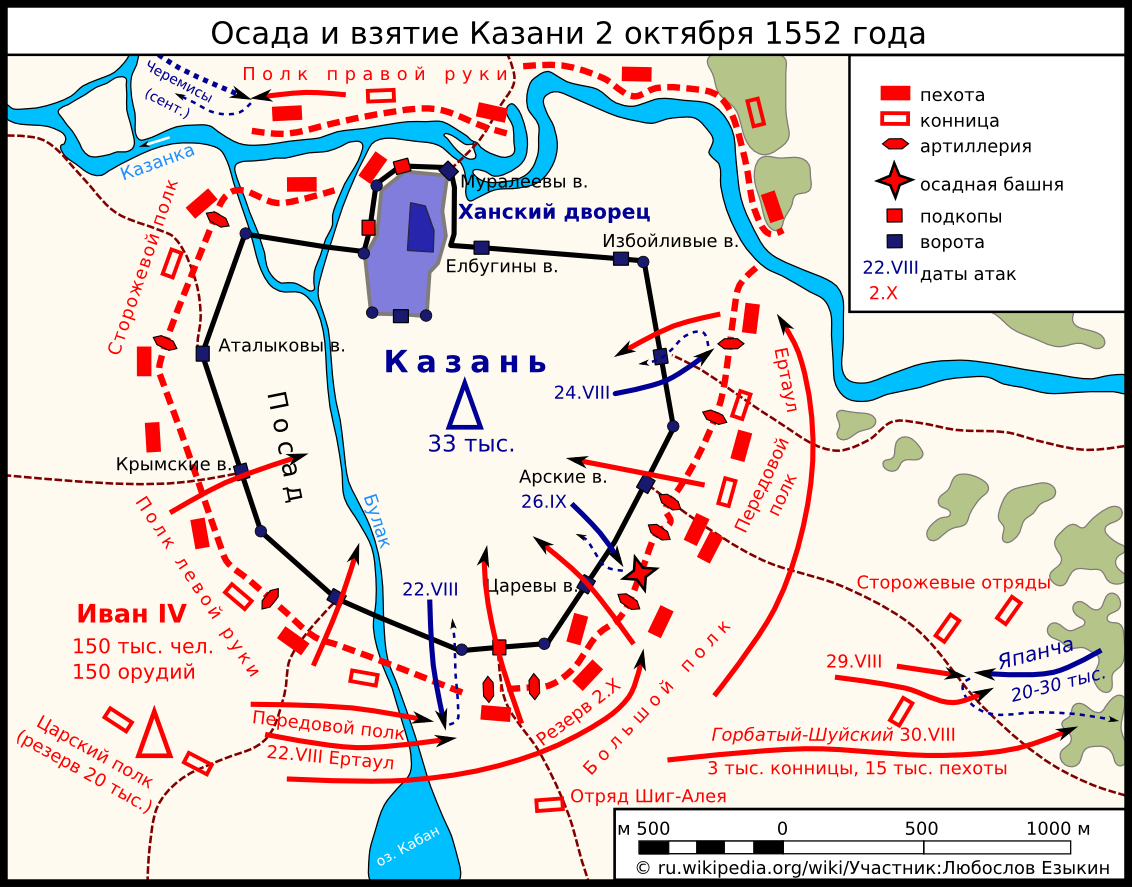 Siege of Kazan, 1552